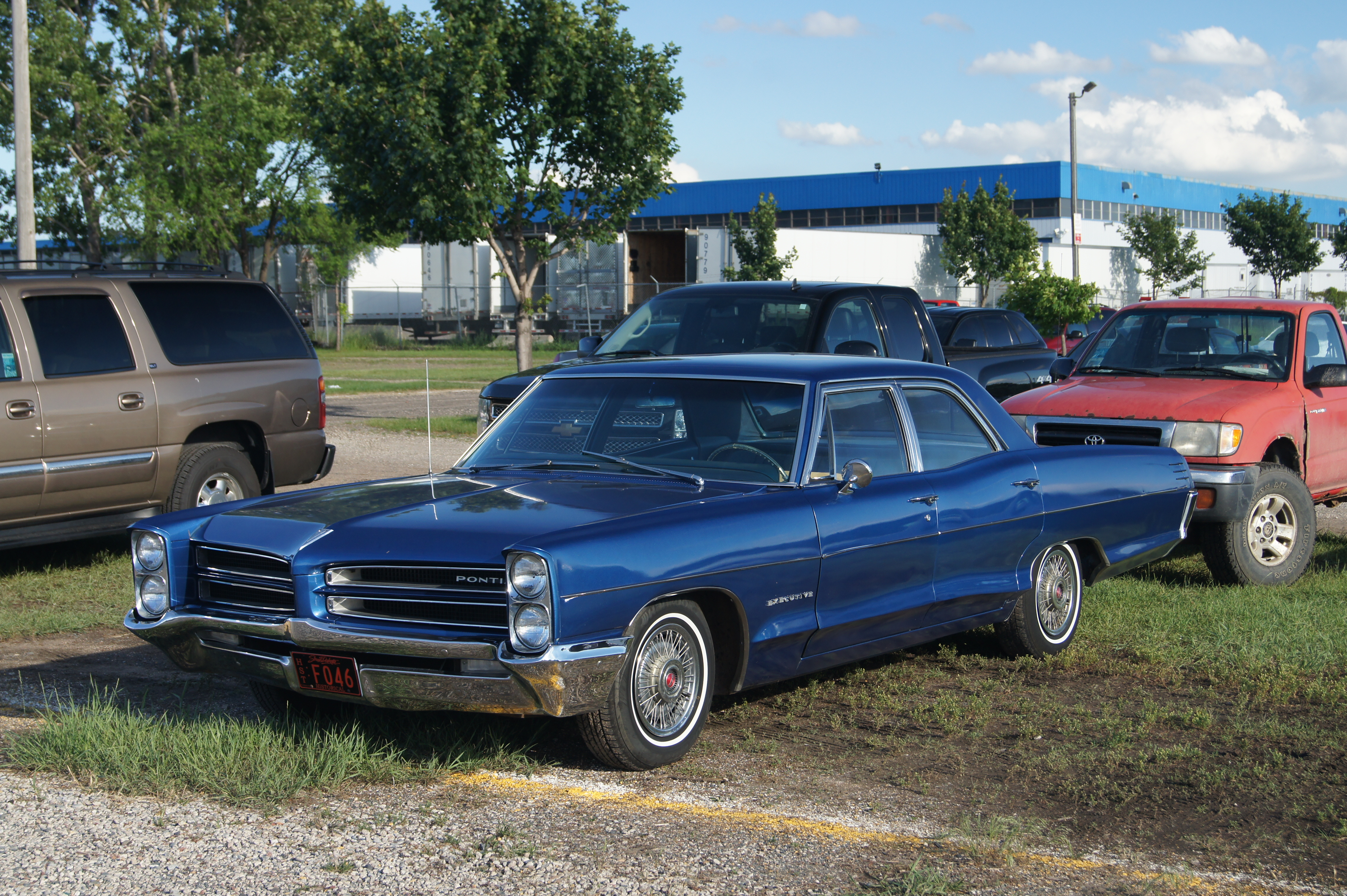 Click here for more car pictures at my Flickr site.